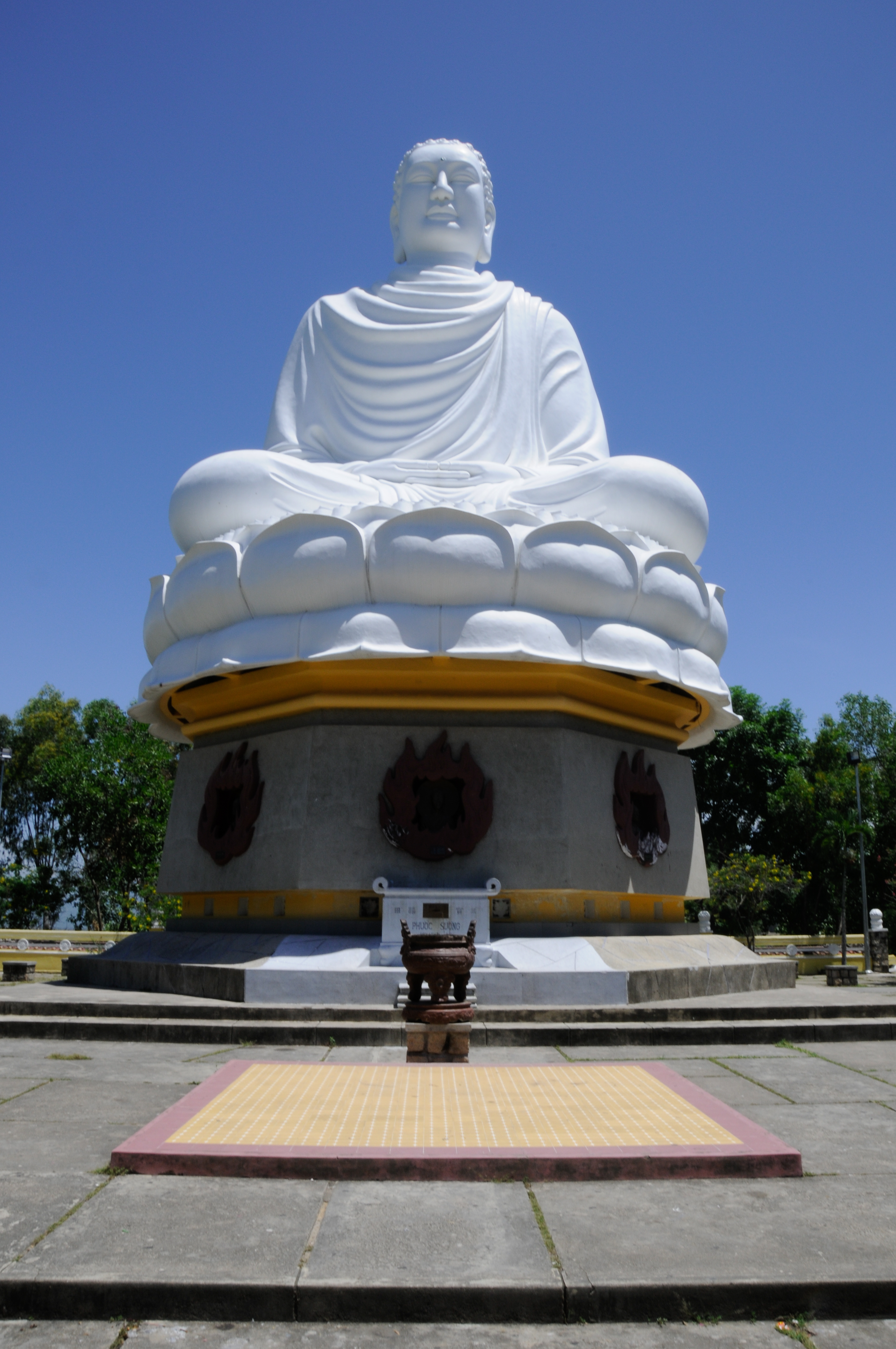 White Buddha in Nha Trang, Vietnam